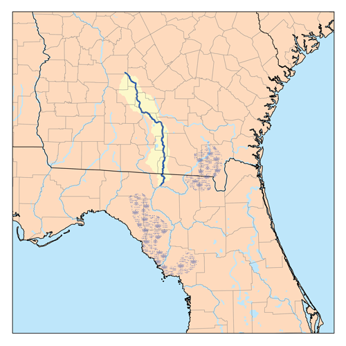 This is a map of the Alapaha River watershed. I, Karl Musser, created it based on USGS data.